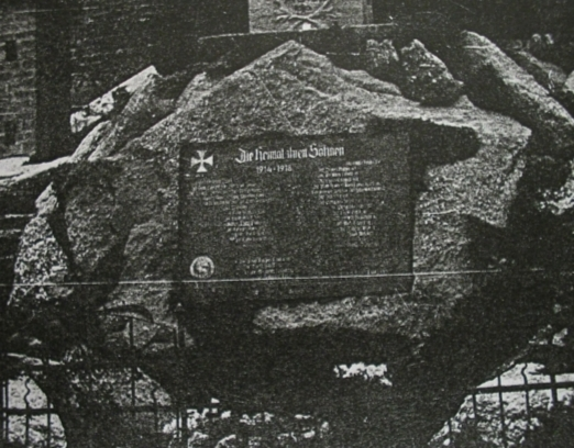 Monument of victims of WWI in Rudoltice (German Rudolsdorf), Czech republic. Built by local German authorities in 1939. Destroyed by unknown people in 1945.